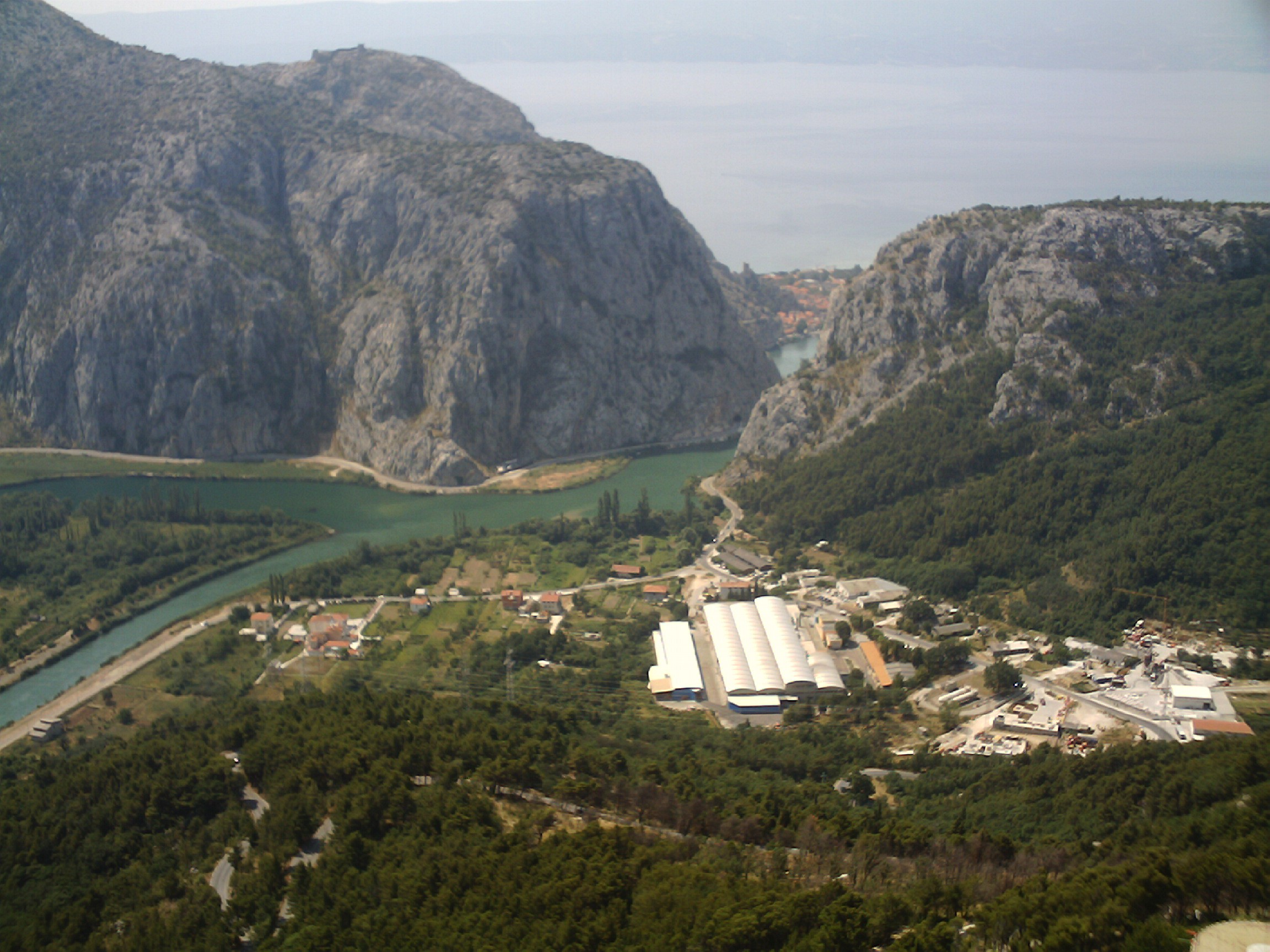 View of River Cetina